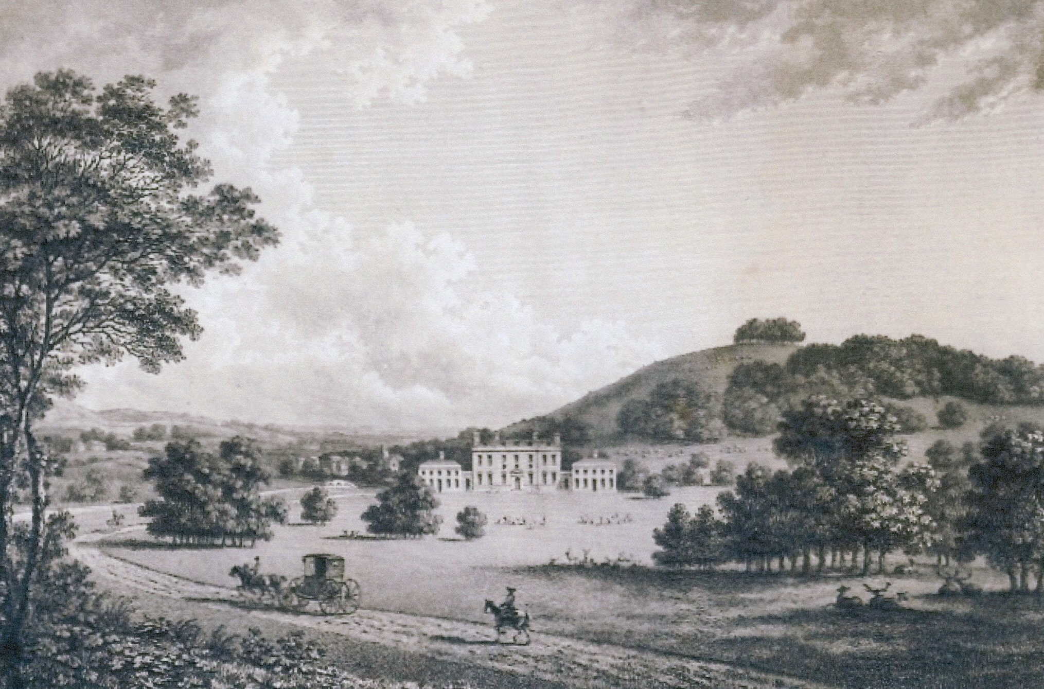 Engraving of Godmersham Park (Kent)in 1779